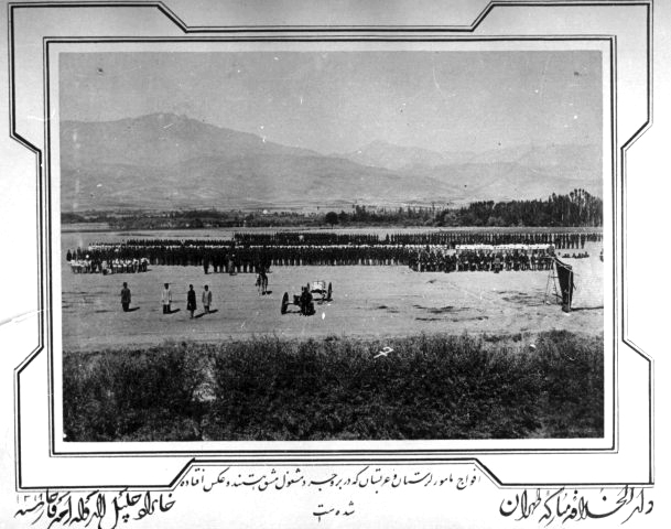 Troops of Luristan and Khuzistan (Arabistan) in Borujerd